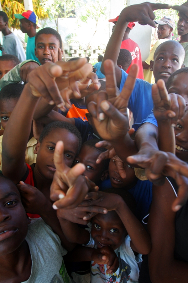 Marines and Sailors from the 24th Marine Expeditionary Unit and Nassau Amphibious Ready Group conduct a site survey in the town of Cavaillon, Haiti Jan 28. This group of Marines and Sailors were sent to assess a multitude of things including medical readiness, power supply, food and water availability, and infrastructure after the recent earthquake in Haiti. (US Marine Corps photo by Sgt Andrew J. Carlson)